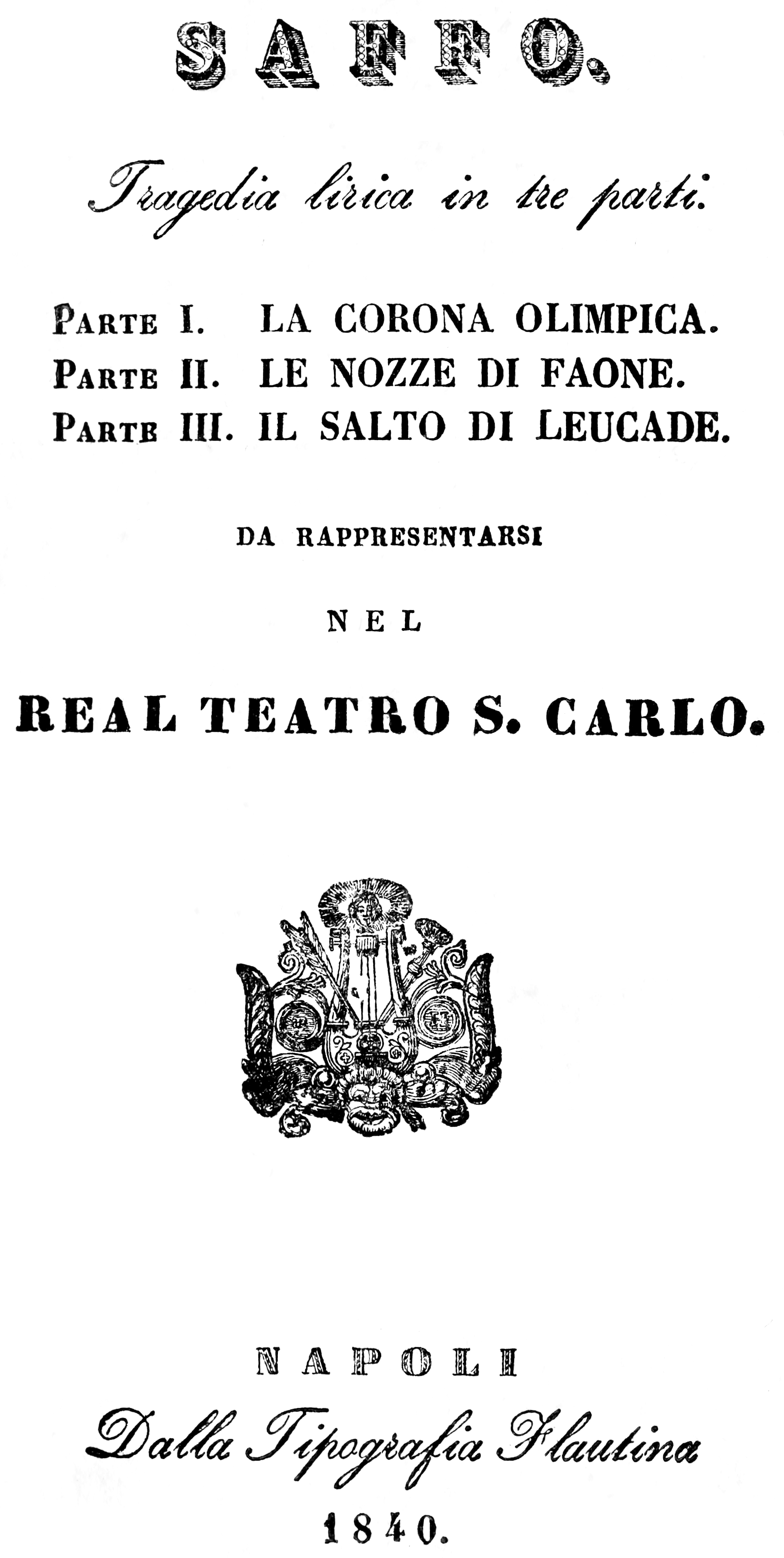 Giovanni Pacini - Saffo - title page of the libretto - Naples 1840